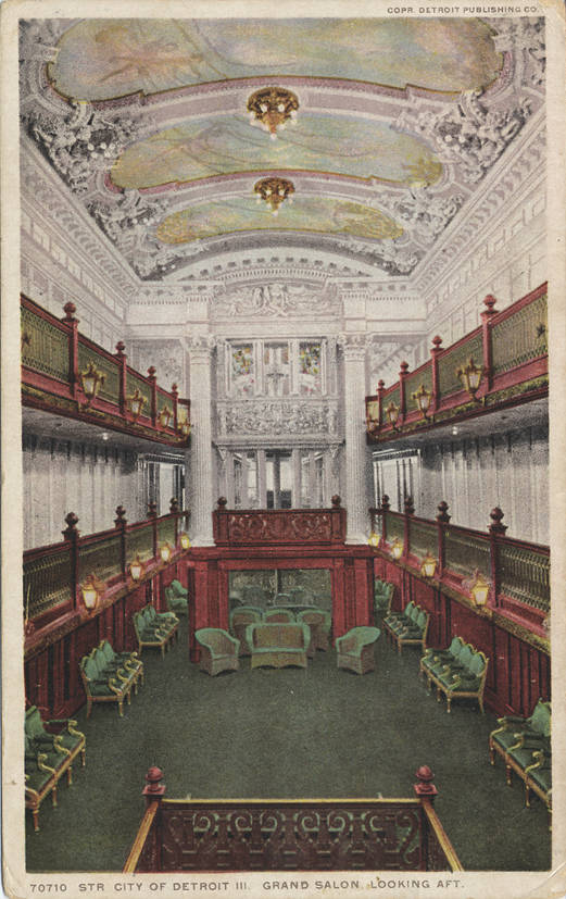 Steamer City of Detroit III, Grand Salon, Looking Aft